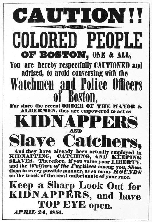 On September 18, 1850, the Fugitive Slave Law or Fugitive Slave Act was passed by the United States Congress. This law allowed US Federal Marshals to take fugitive slaves from northern states regardless of established jobs, families or property. This law also put anyone aiding a fugitive at risk because if caught they would be fined $1,000 (which is roughly $28,000 today) and face 6-months of jail time. The Fugitive Slave Law led to mass protest by many northerners who believed that the influence of the slave power of the federal government was overwhelming. Because of this, cities like Boston began to utilize vigilante justice as an avenue of resistance. Militant abolitionism led to fugitives being rescued, armed patrols in the streets and the death of federal marshals. As Frederick Douglass stated in 1852: "The only way to make the Fugitive Slave Law a dead letter is to make half a dozen or more dead kidnappers." Keywords: fugitive slave law; slave law; fugitive; frederick douglass; slave; compromise of 1850; slaves; slave power